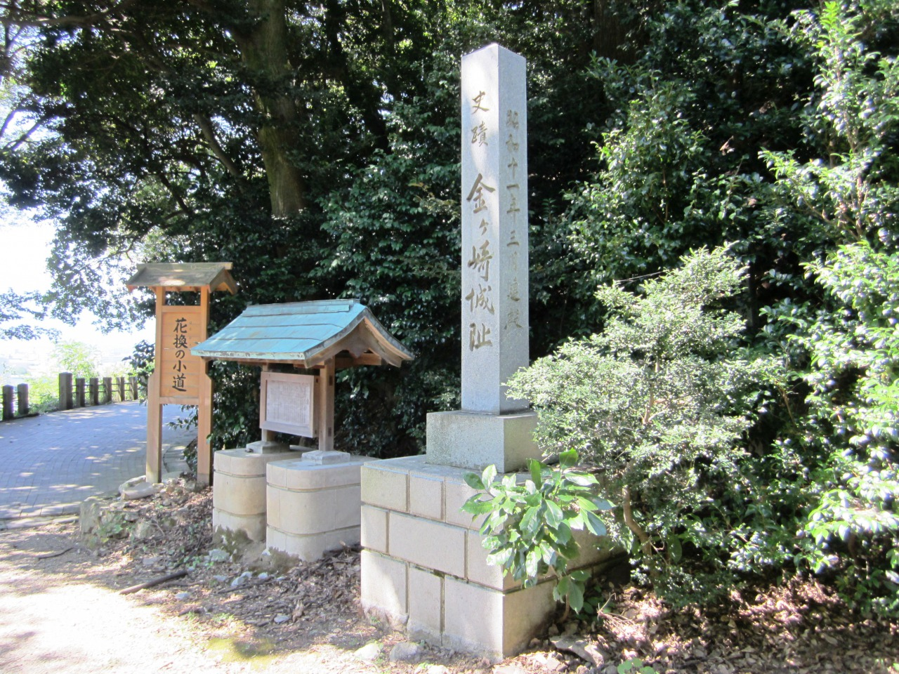 The Site of Kanegasaki Castle in Tsuruga, Fukui.